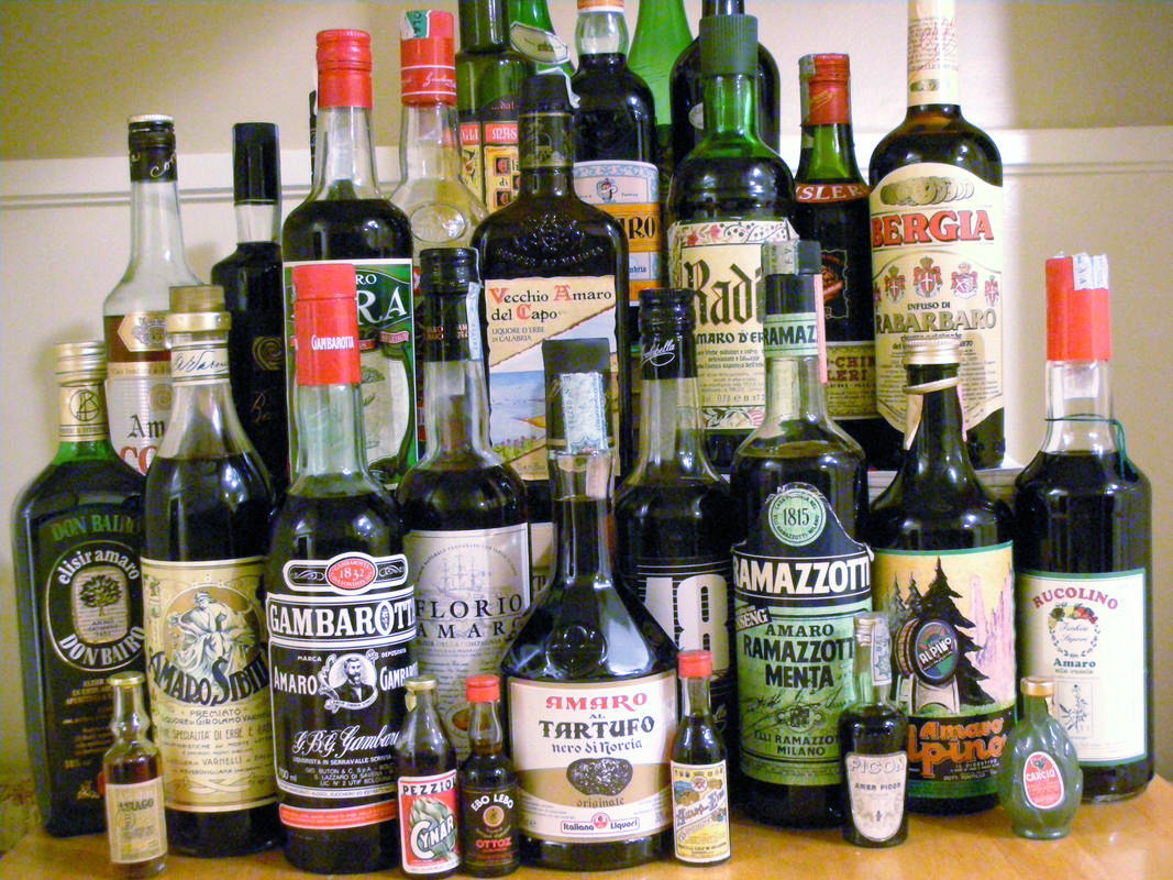 steven e. pav, 2007. picture of some amari from my collection. mostly new acquisitions from a recent trip to Italy.